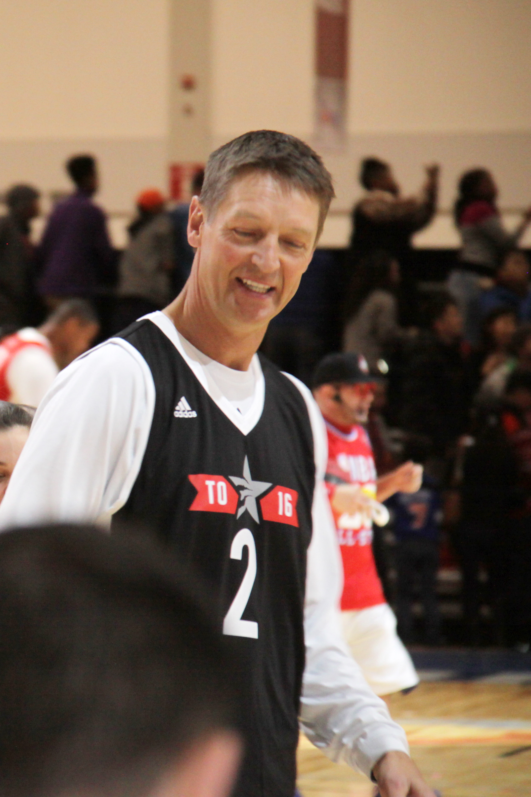 Detlef Schrempf at NBA All-Star Center Court 2016